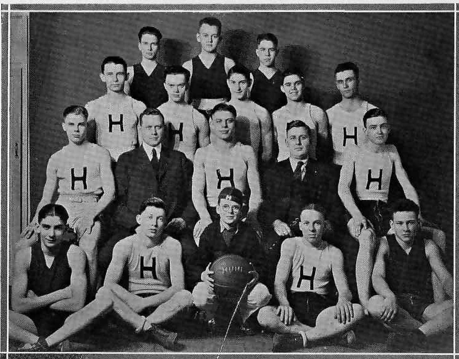 Hartford City High School varsity basketball team for 1922-23 season